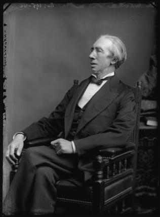 Sir George Alexander Macfarren (1813–1887) British composer and musicologist